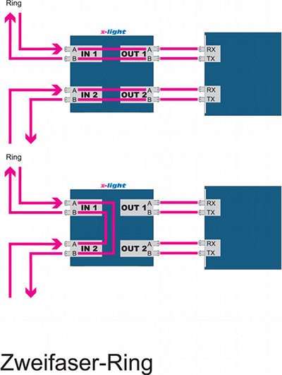 Optical bypass functional diagram